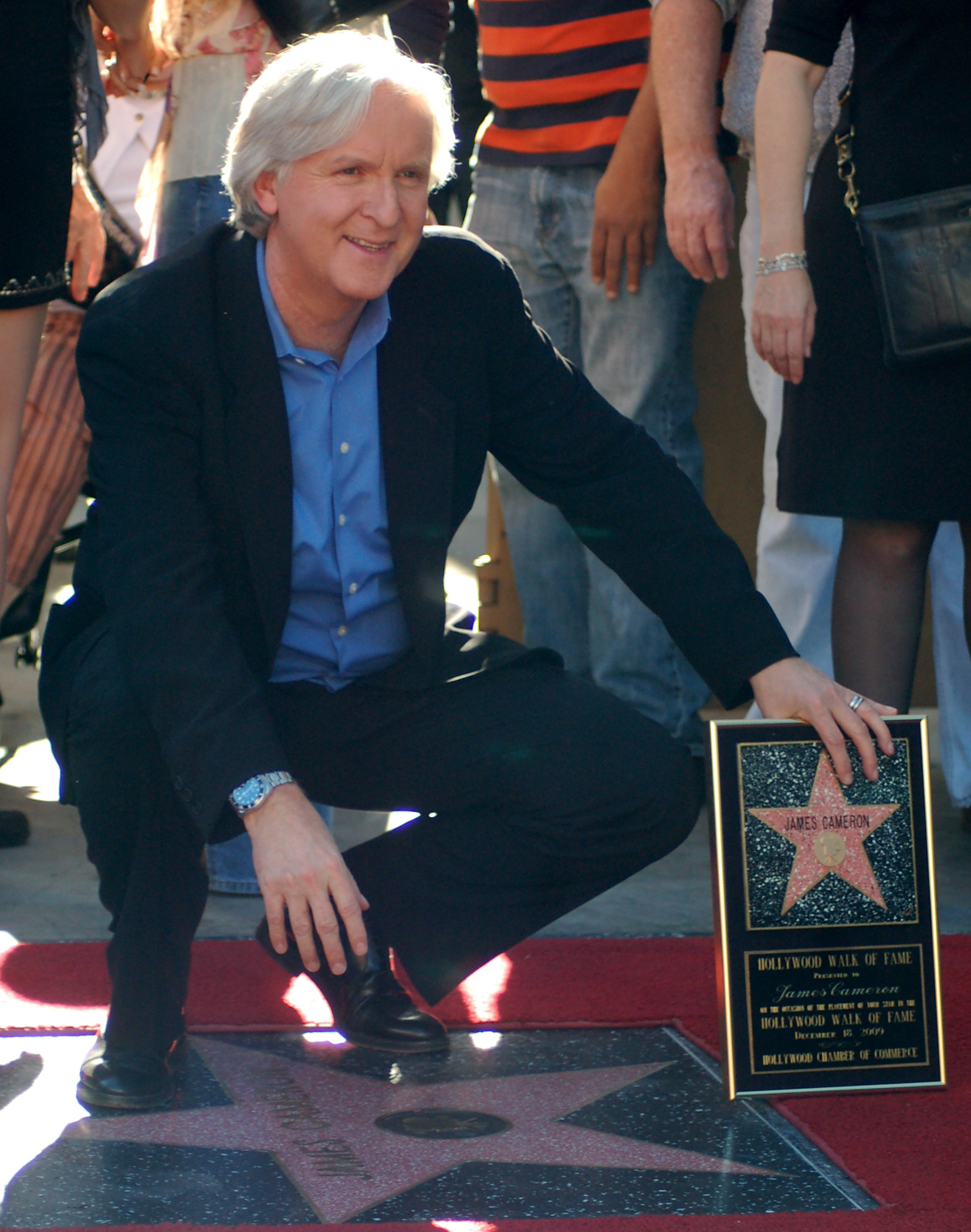 James Cameron at a ceremony to receive a star on the Hollywood Walk of Fame.